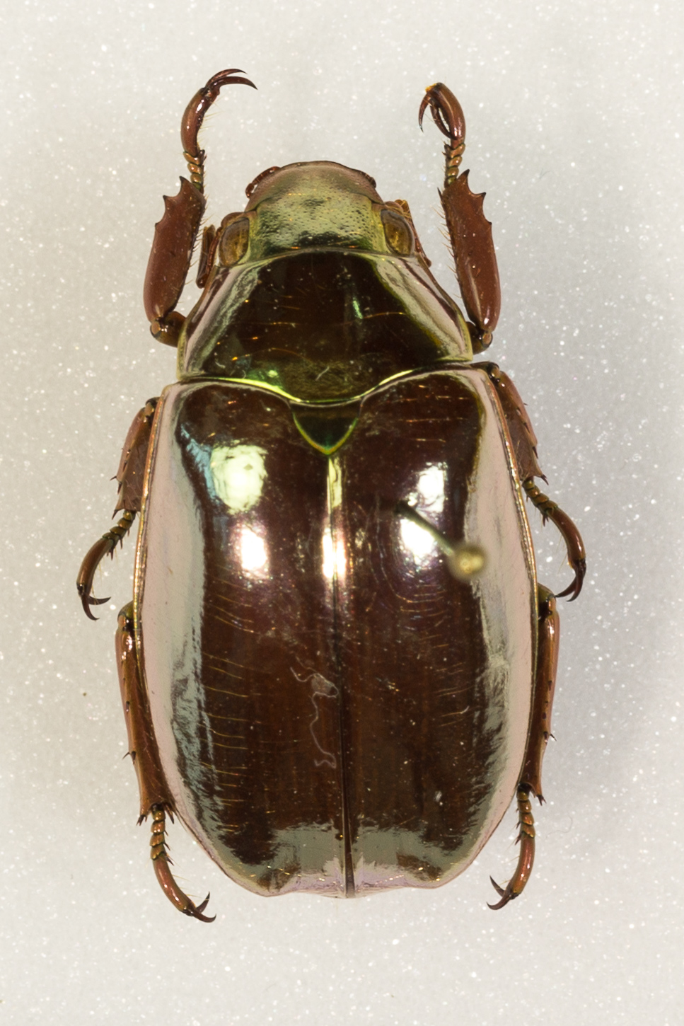 Chrysina optima from collections of zoology of University of Rennes 1.